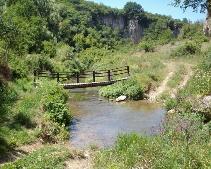 Nature landmark "Chernelka"